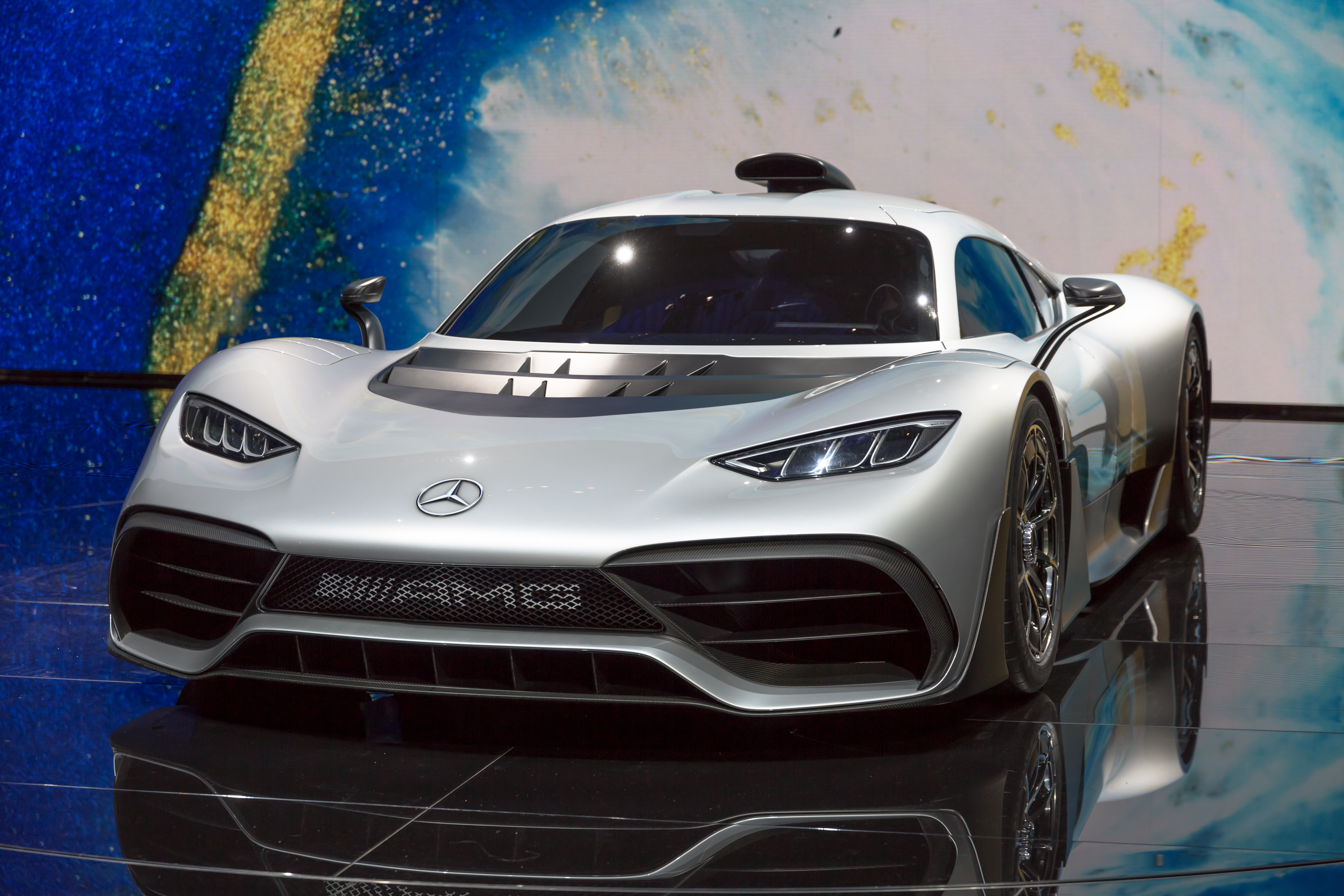 Mercedes-AMG Project One